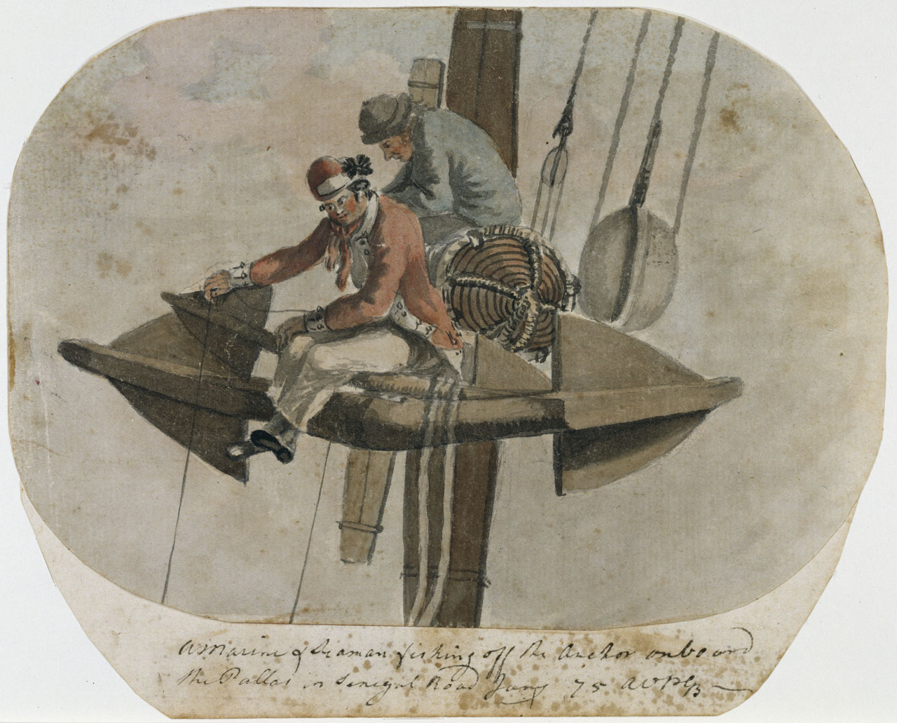 A Marine and a Seaman (sailor) fishing off the anchor onboard the Pallas in Senegal Road, January 1775